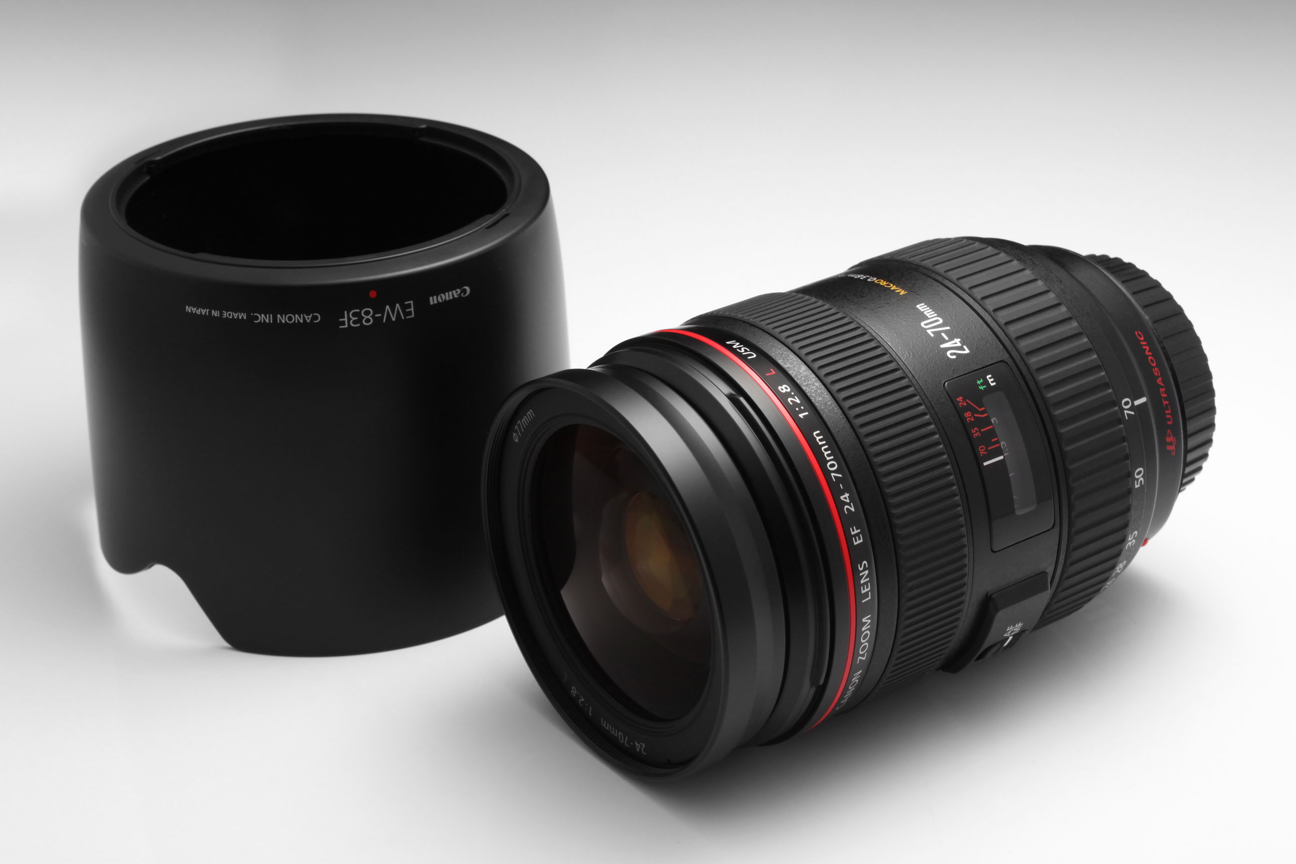 Canon EF 24-70mm f2.8L USM zoom lens